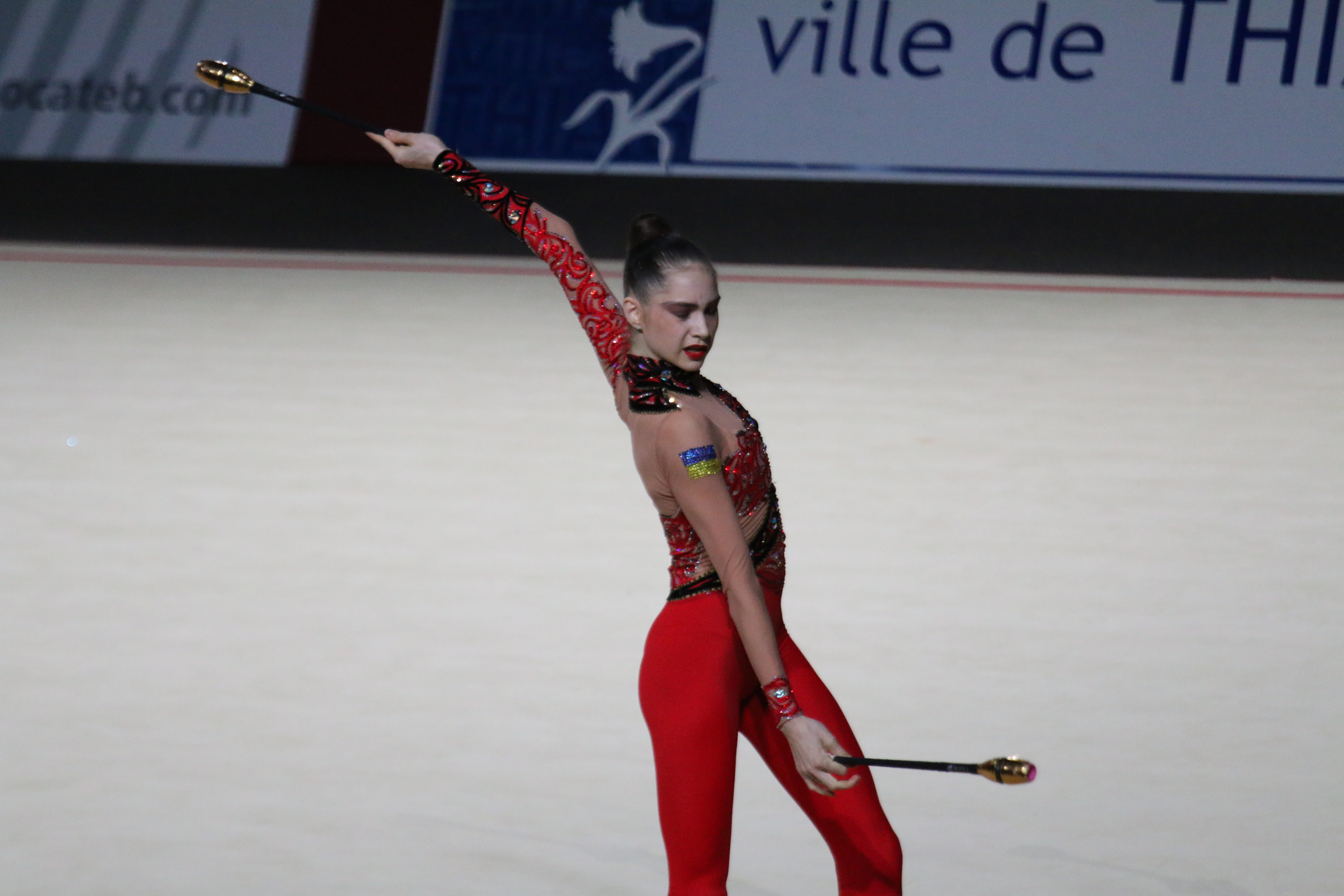 Here is Vlada Nikolchenko doing her clubs routine on Carmen music in GP Thiais 2019, 30 March, take by me!